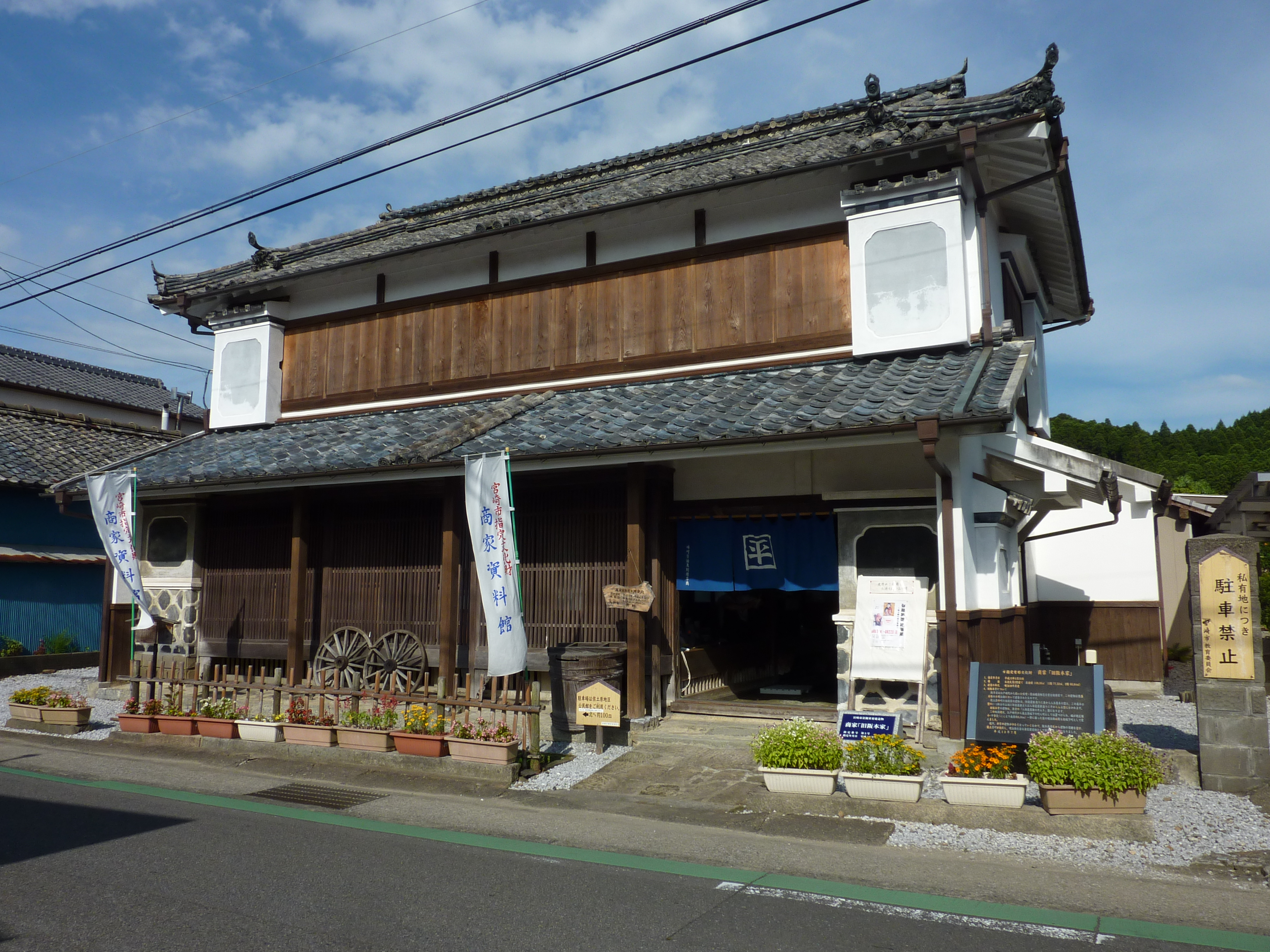 Former Sakamoto Residence (Sadowra, Miyazaki City, Japan)